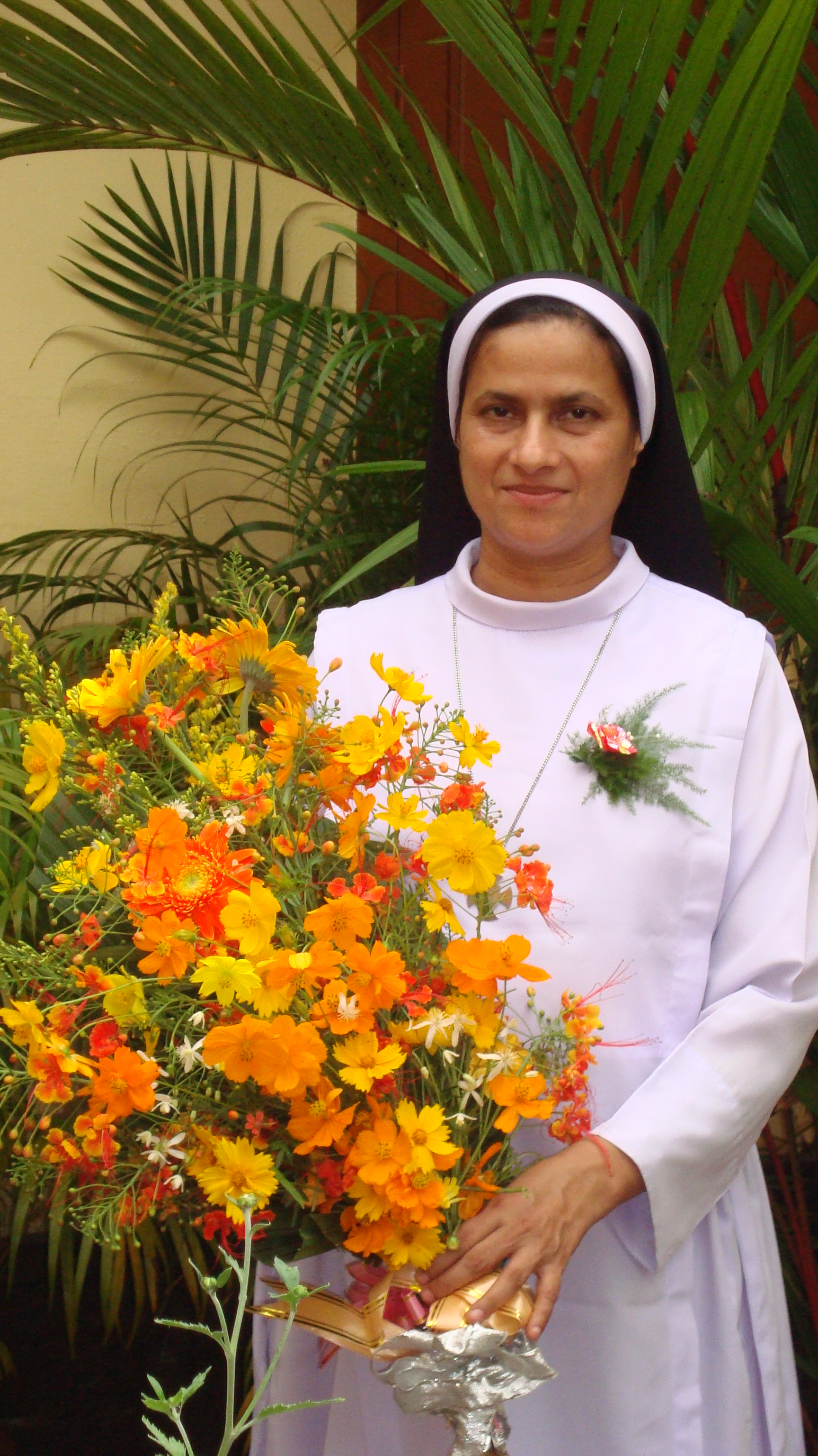 Headmistress St Little Tresas UP School, Karumalloor